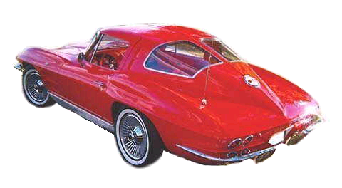 PNG version of [1]